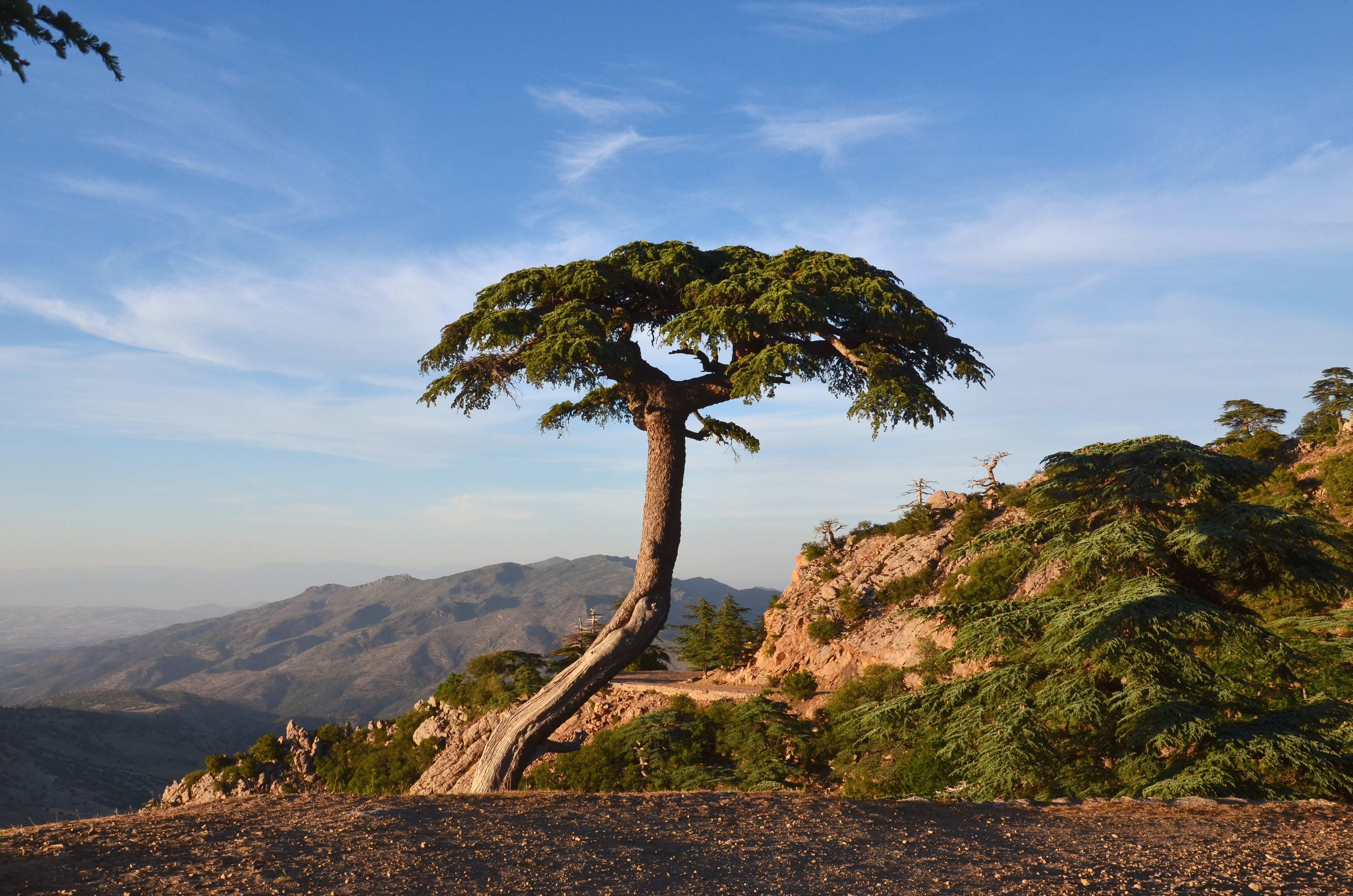 Theniet El Had National Park is located in the district Theniet El Had, wilaya of Tissemsilt in Algeria. The cedar forest of Theniet El had covers 3424 ha including 1000 ha of cedars